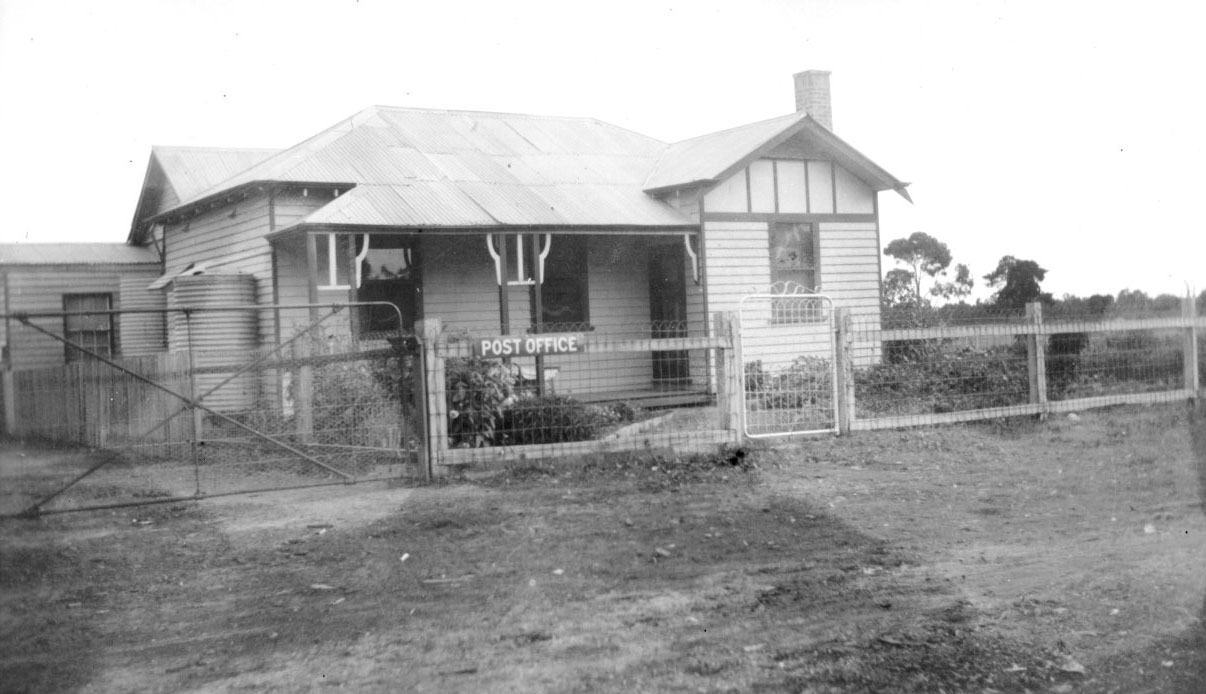 The Adelaide Lead Post Office {left of photo} attached to the Martin's private residence.